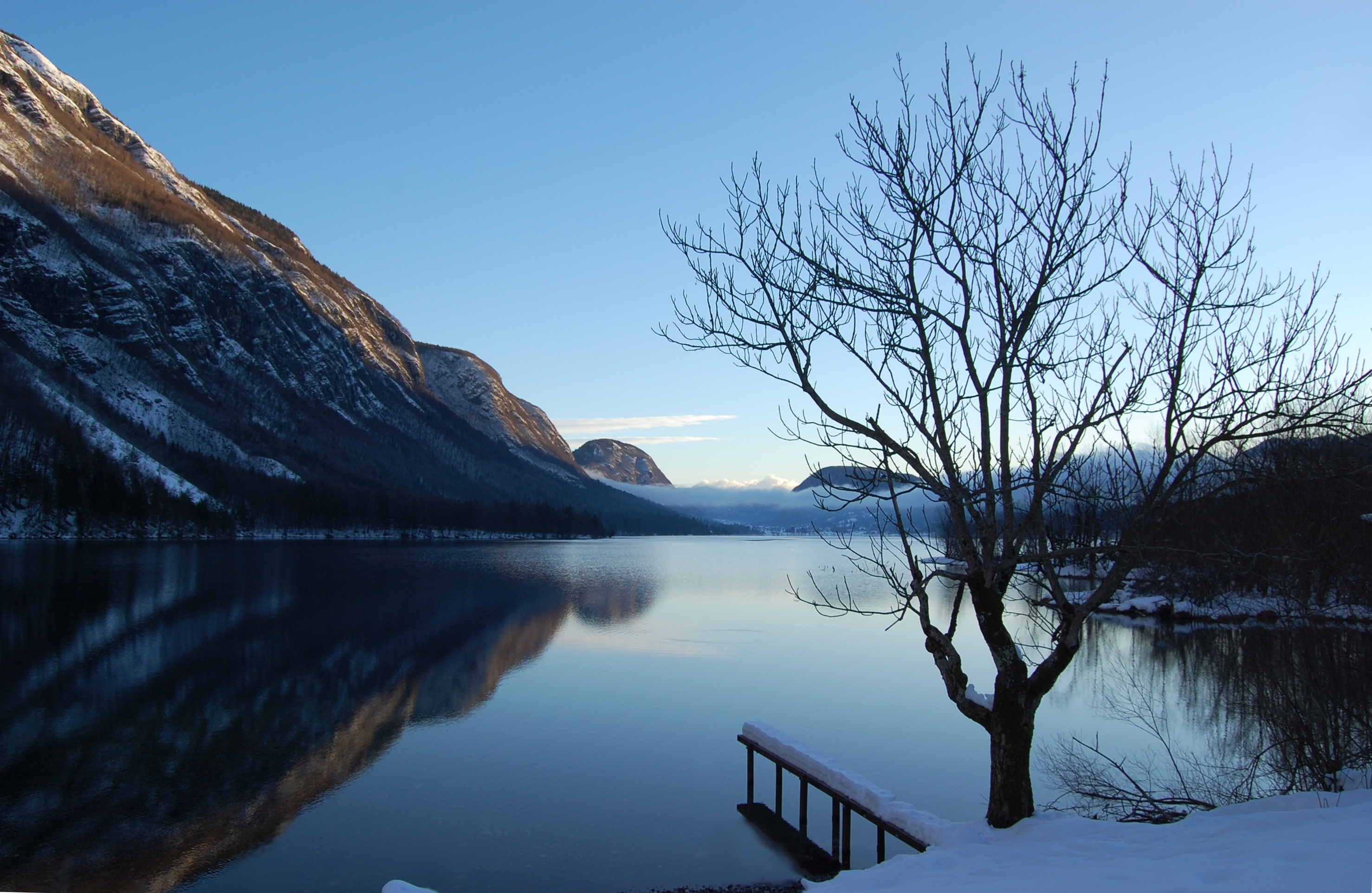 Bohinj lake (Triglav National Park, Slovenia) in the morning